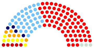 Structure diagram for the 2012 Armenian National Assembly.